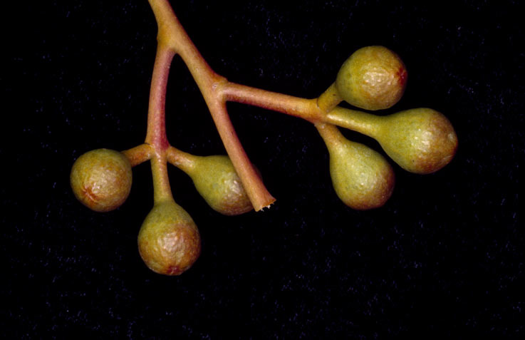 Flower buds of Eucalyptus ebbanoensis in the Great Victoria Desert, Hope Campbell Hill, Western Australia